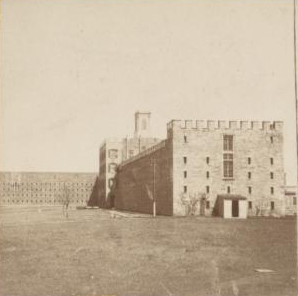 Penitentiary, Blackwell's Island. [American scenery.] (1865?-1896?)